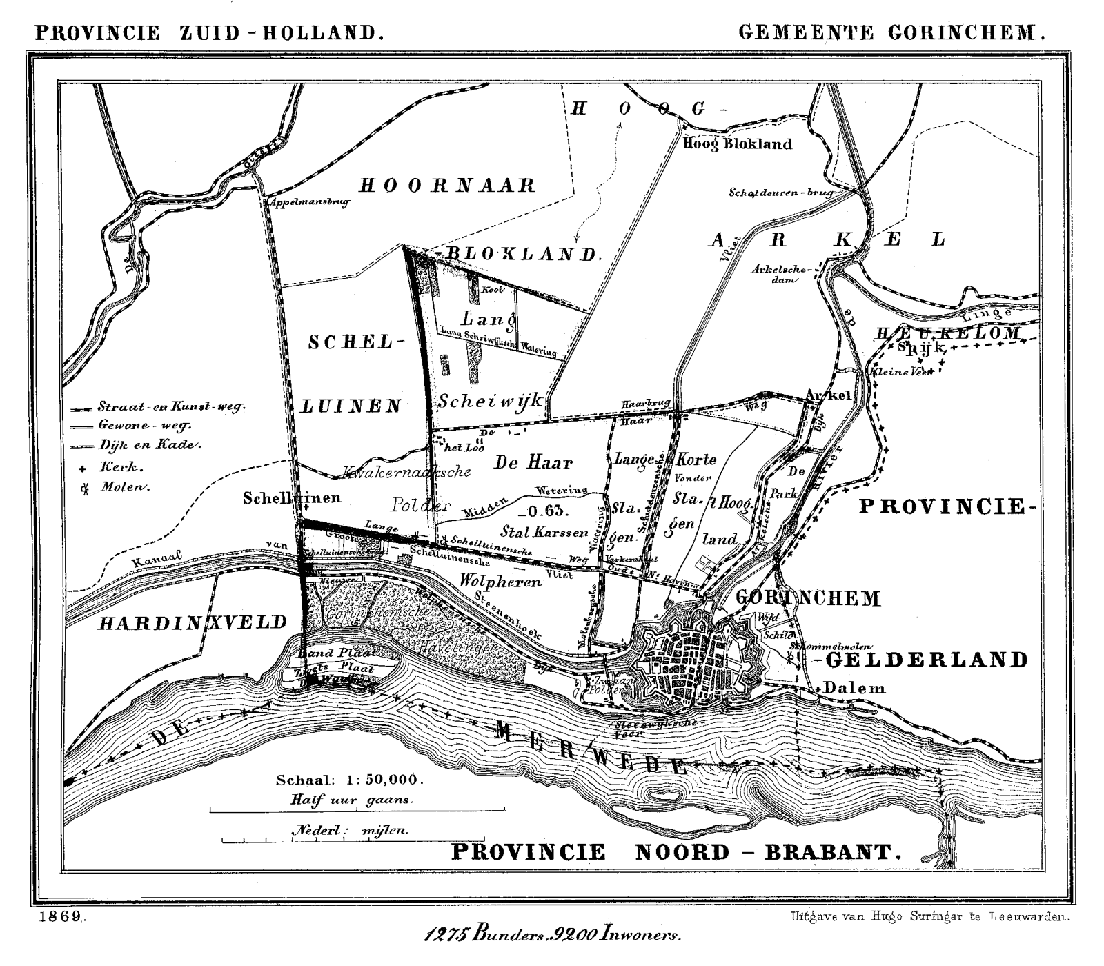 Historic map of Gorinchem, the Netherlands